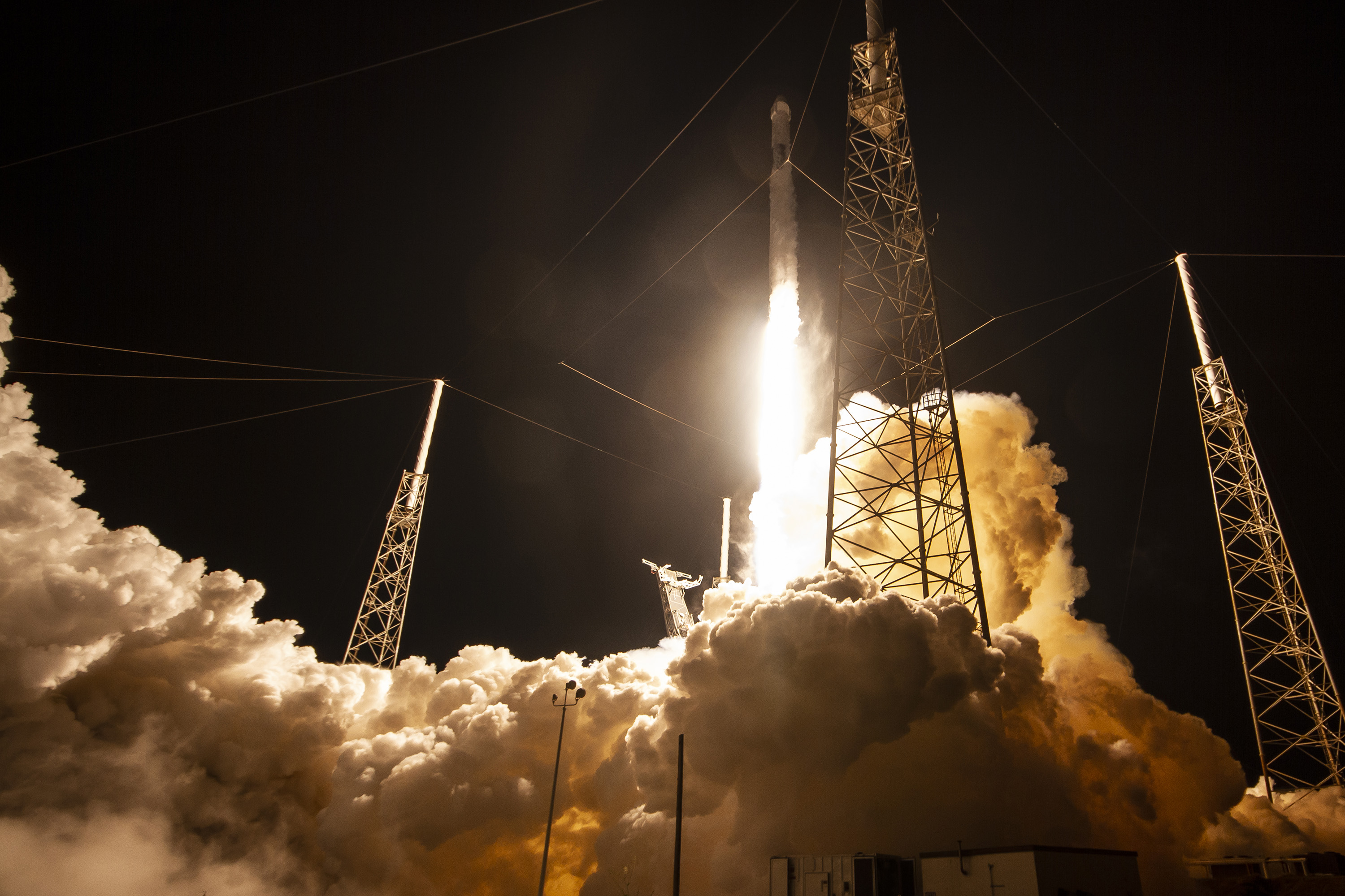 CRS-17 Mission